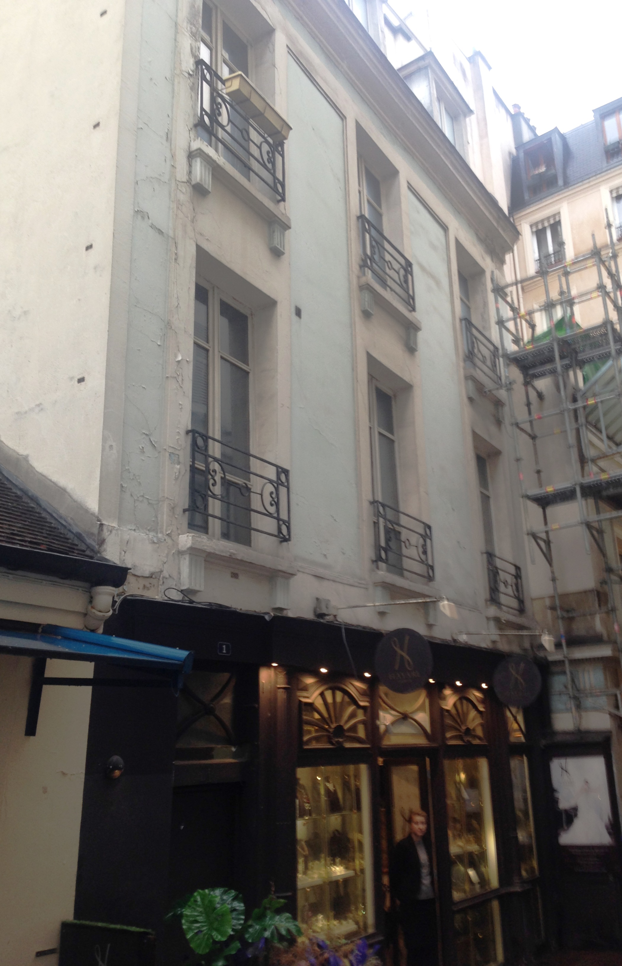 The historic Cour du Commerce Saint-Andre in the 6th arrondissement of Paris, France. The house at No. 1 was where Georges Danton lived around the time preceding the French Revolution, when he was the District President.